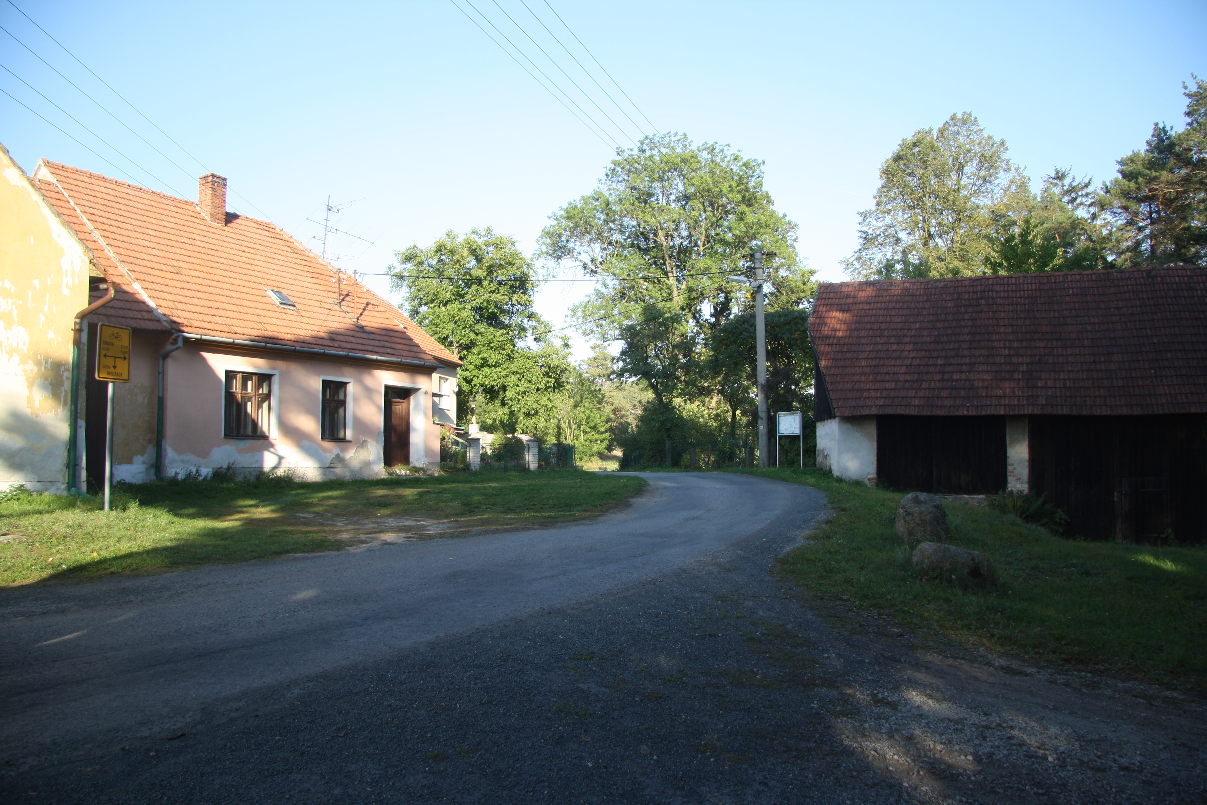 Center of Doubrava, Valdíkov, Třebíč District.